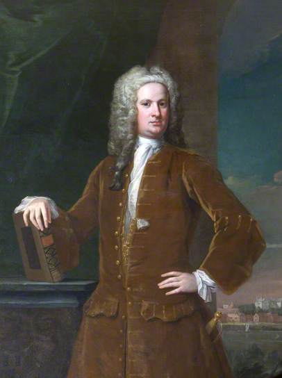 Edmund Prideaux (1693-1745) of Prideaux Place, Cornwall. "The sitter is identifiable by the coat of arms on the plinth and by his connections with the Hobarts of Blickling, where this hangs amongst other portraits of ‘Norfolk Worthies’. Although he was from an ancient Cornish family, Edmund was associated with Norwich. His father, the noted Orientalist, Humphrey Prideaux, was Dean of Norwich, and Edmund married Hannah Wrench, who came from that city. He made a Grand Tour of Italy (probably in 1739), during which he collected a number of Roman antiquities and pictures. Afterwards, he set about transforming the interior and exterior of Prideaux Place, his large E-plan house, which is shown in the background. He transformed the grounds with garden buildings and a wilderness with serpentine paths. "